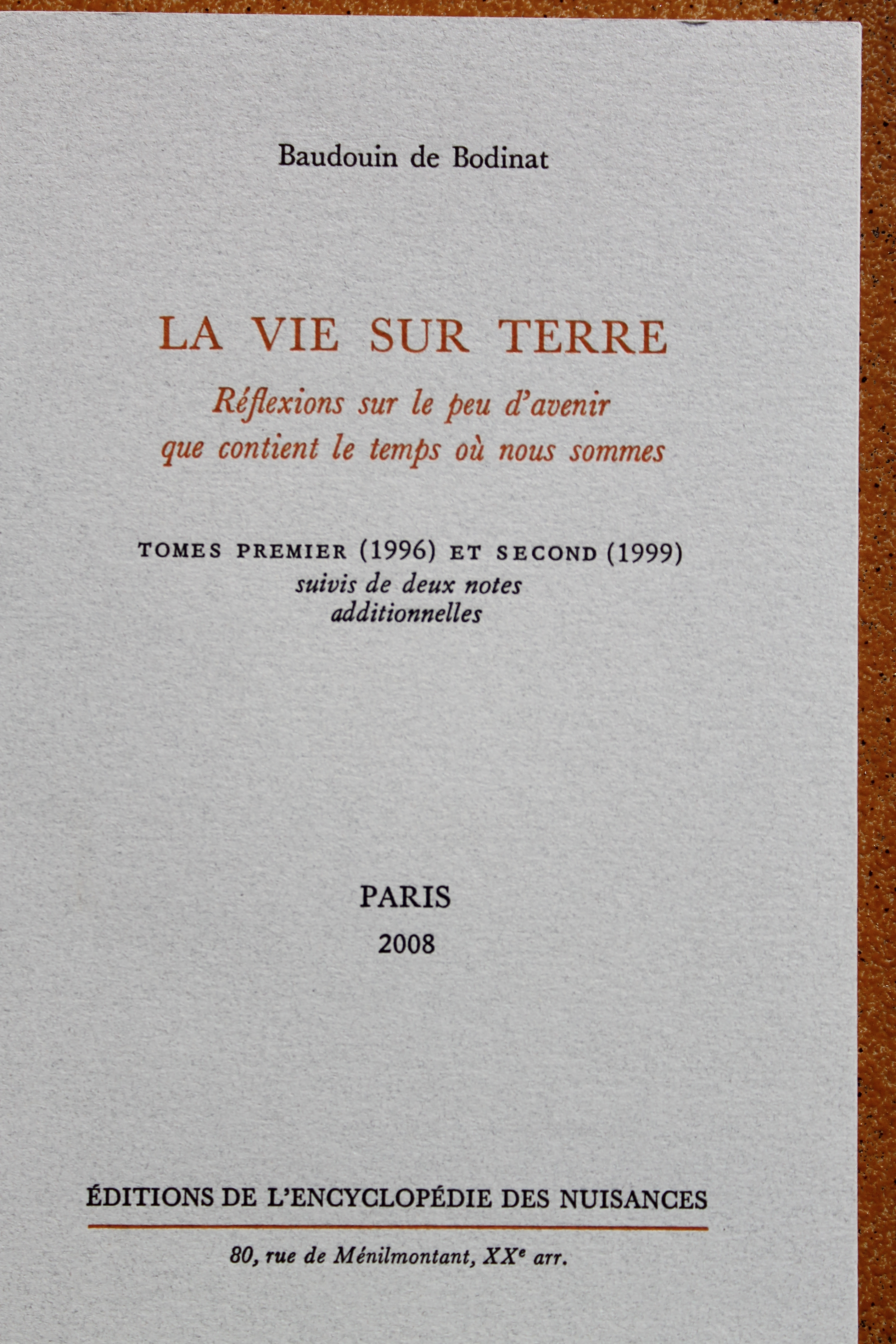 La vie sur terre (Baudouin de Bodinat)